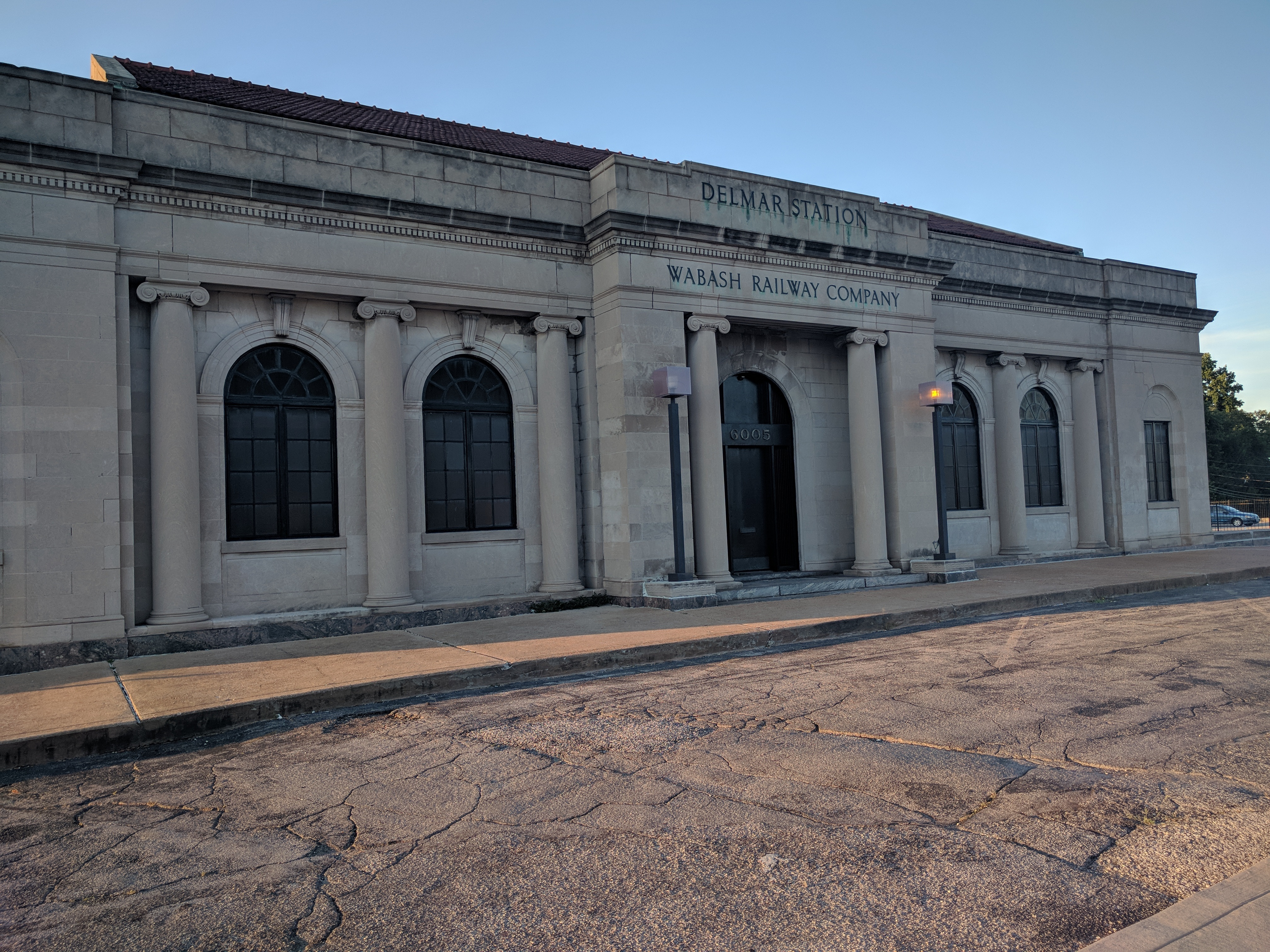 The disused Wabash station sits above the Metrolink Delmar Loop station.